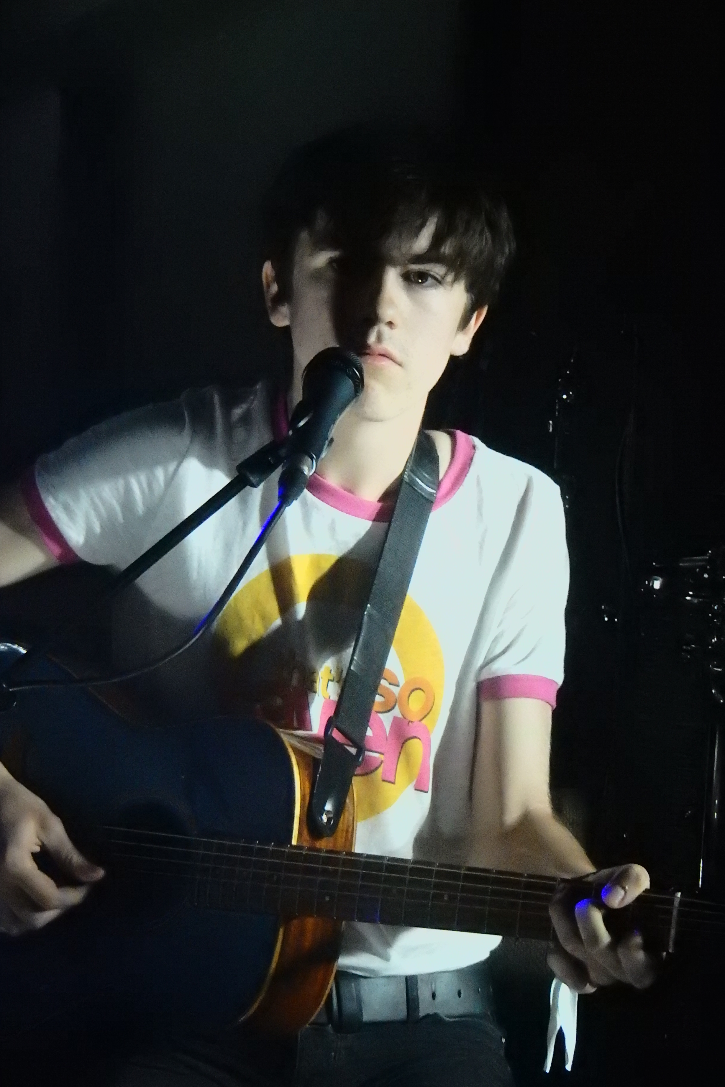 Declan McKenna, Patterns, Brighton (Great Escape 2018)